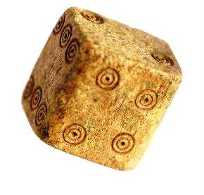 Dice made from bone. Collection of the Museum and Galleries of Ljubljana.